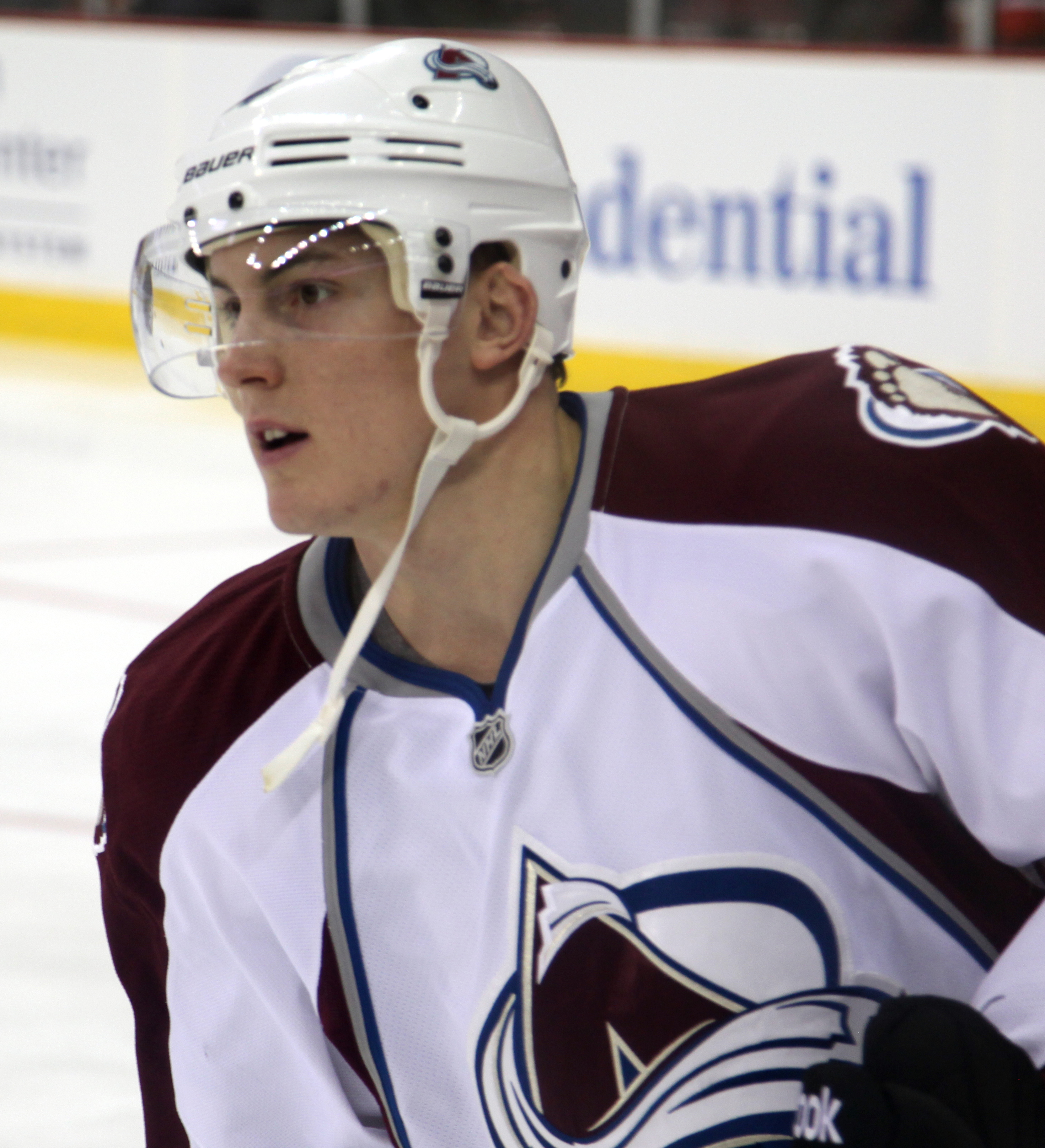 Barrie in February 2014.